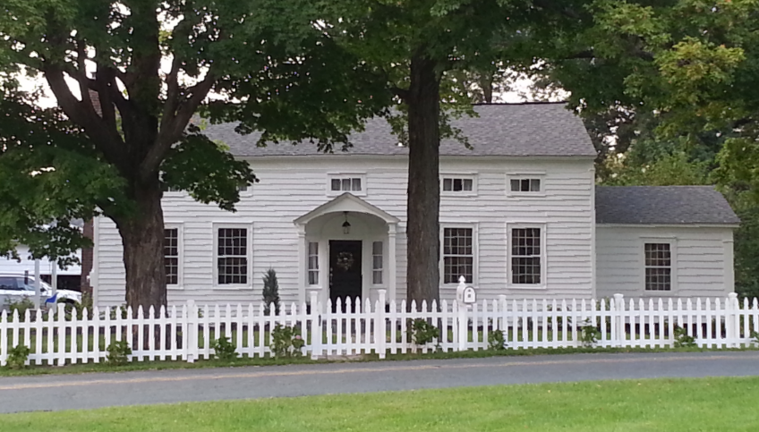 2014 photo of craver farmstead